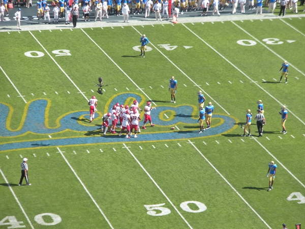 UCLA vs. Utah Oct. 13, 2012 at the Rose Bowl